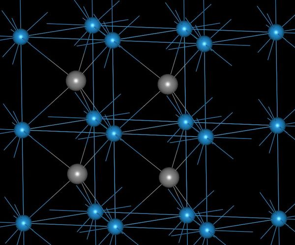 Crystal structure of tungsten carbide. Gray atoms are carbons.